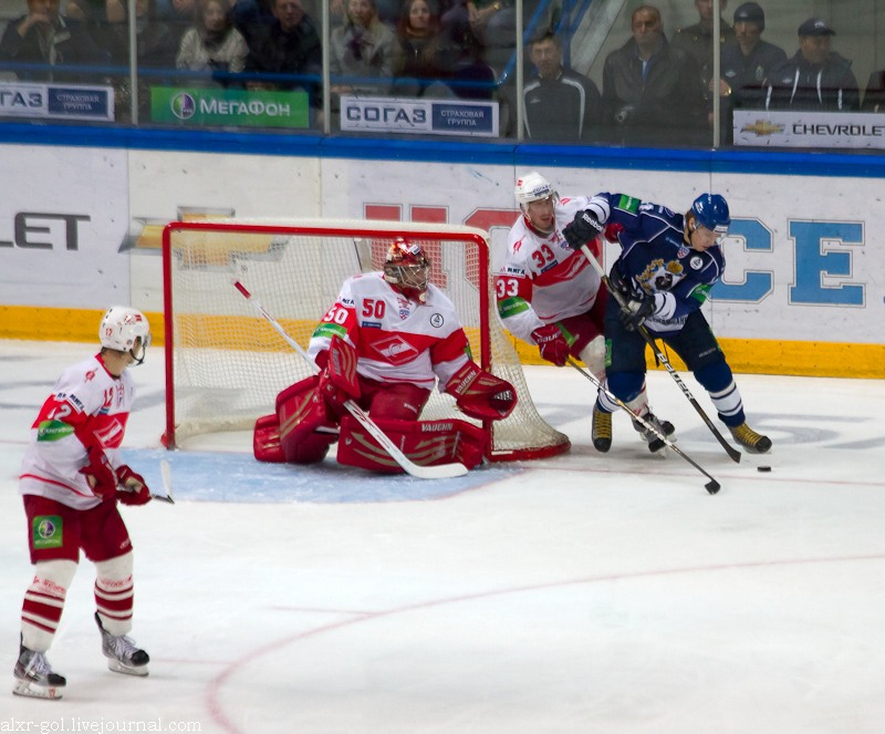 HC Spartak Moscow players before KHL game against Amur Khabarovsk on October 10, 2011. HC Spartak players (LTR): Anatoli Nikontsev, Alexei Yakhin, Denis Bodrov. HC Amur forward Sergei Plotnikov.